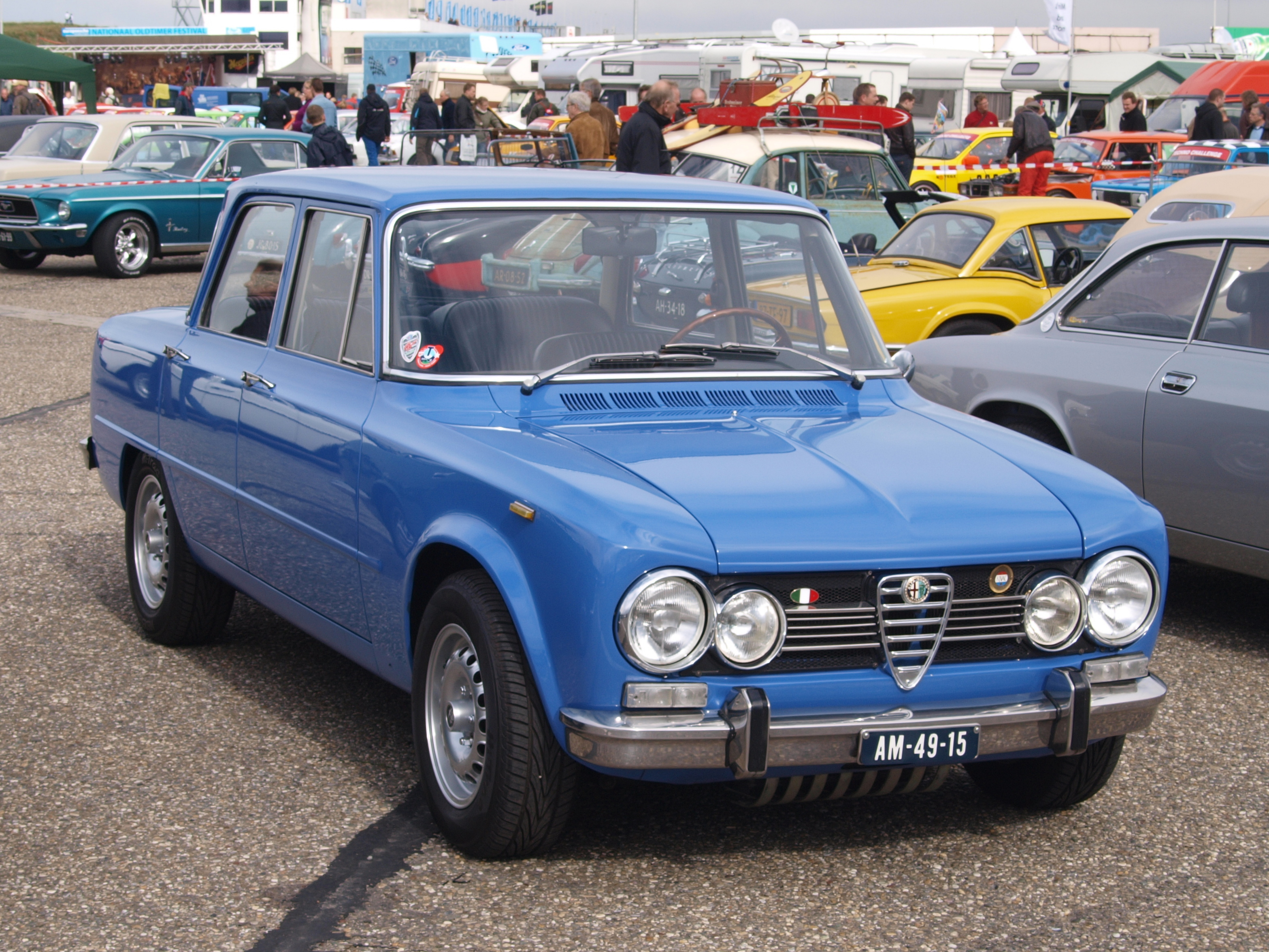 Photographed at the Nationaal Oldtimer Festival Zandvoort 2010, The Netherlands.